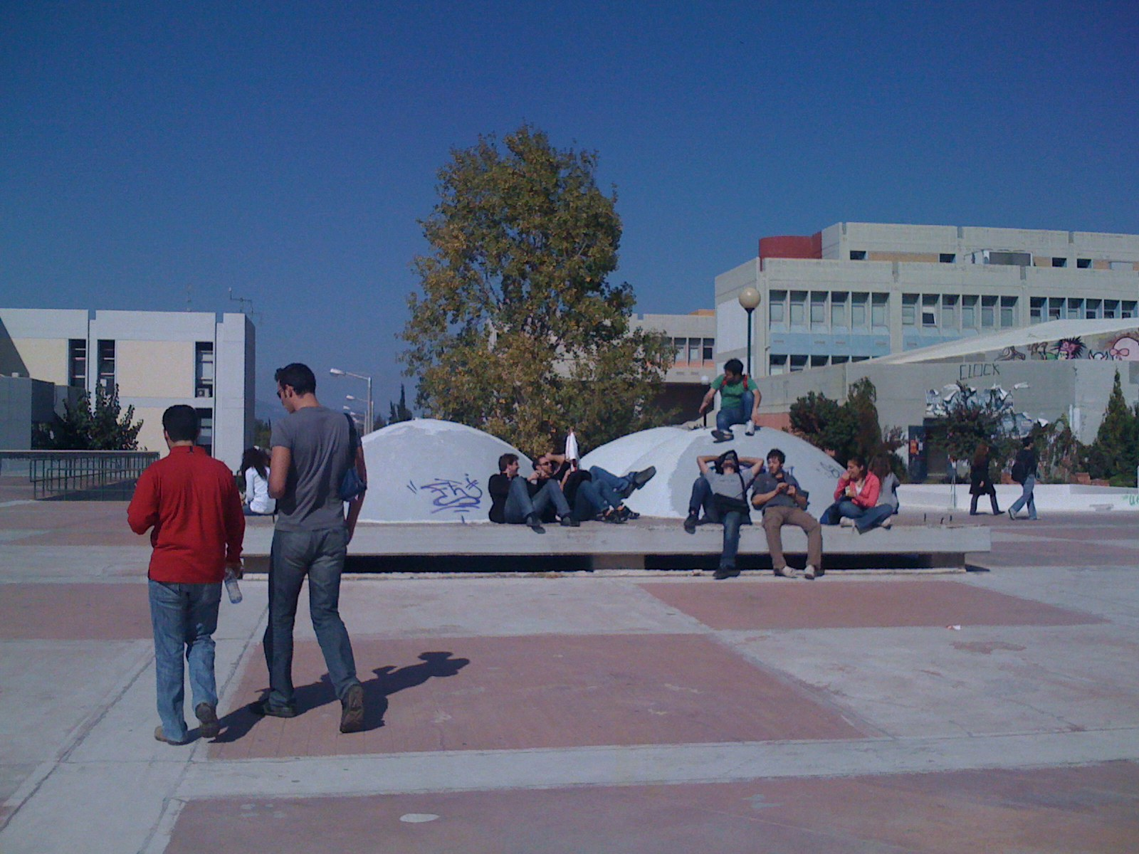 National Technical University of Athens Campus